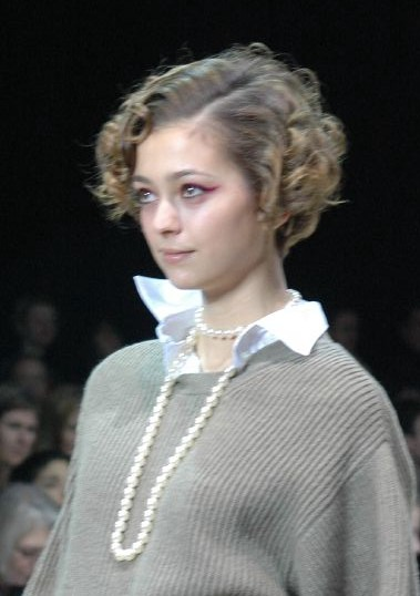 Morgane Dubled at the Paul Smith Women fall 2007 fashion show, London Fashion Week.